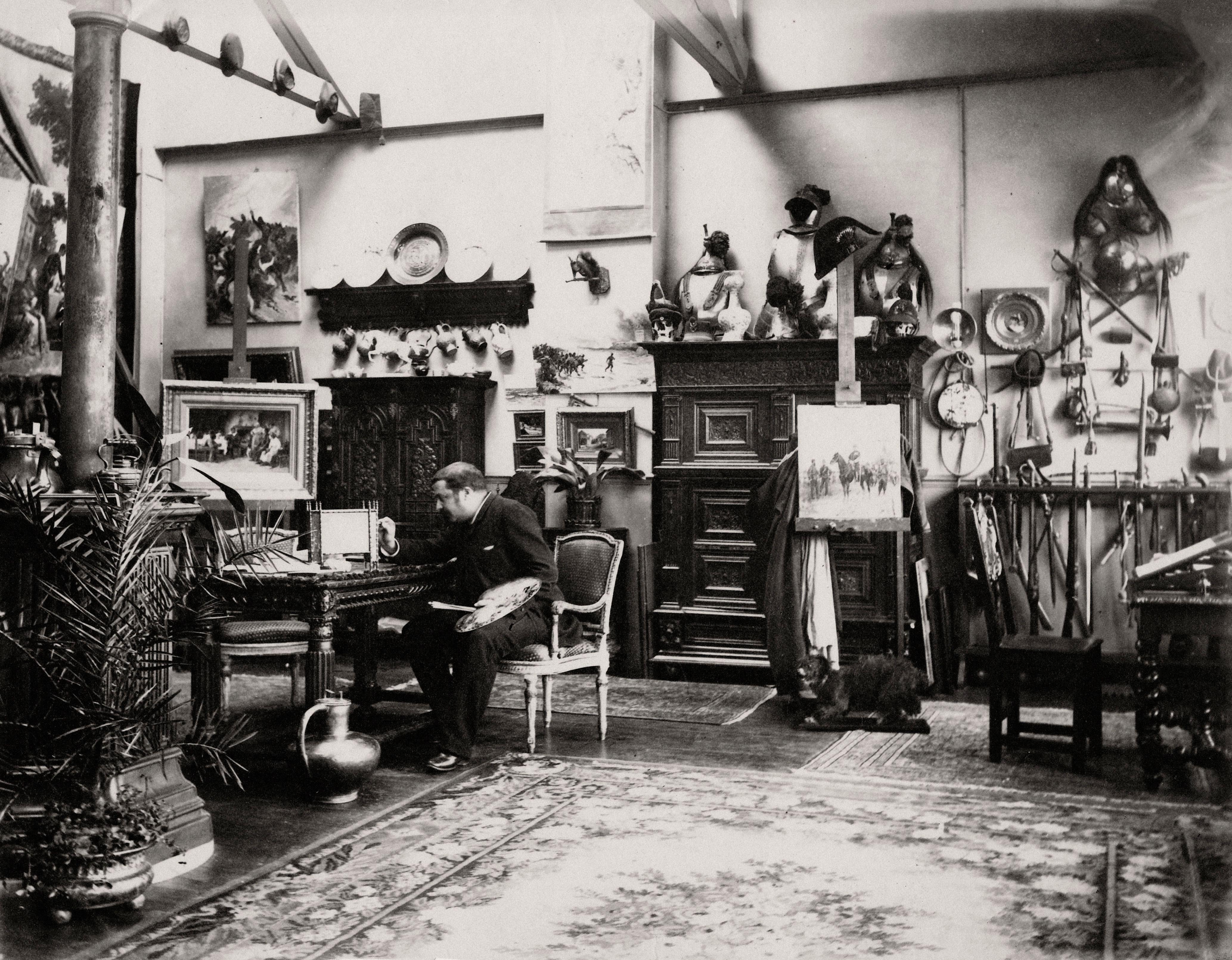 Photograph (albumen print) by Edmond Bénard of Paul-Léon Jazet in his Paris studio.